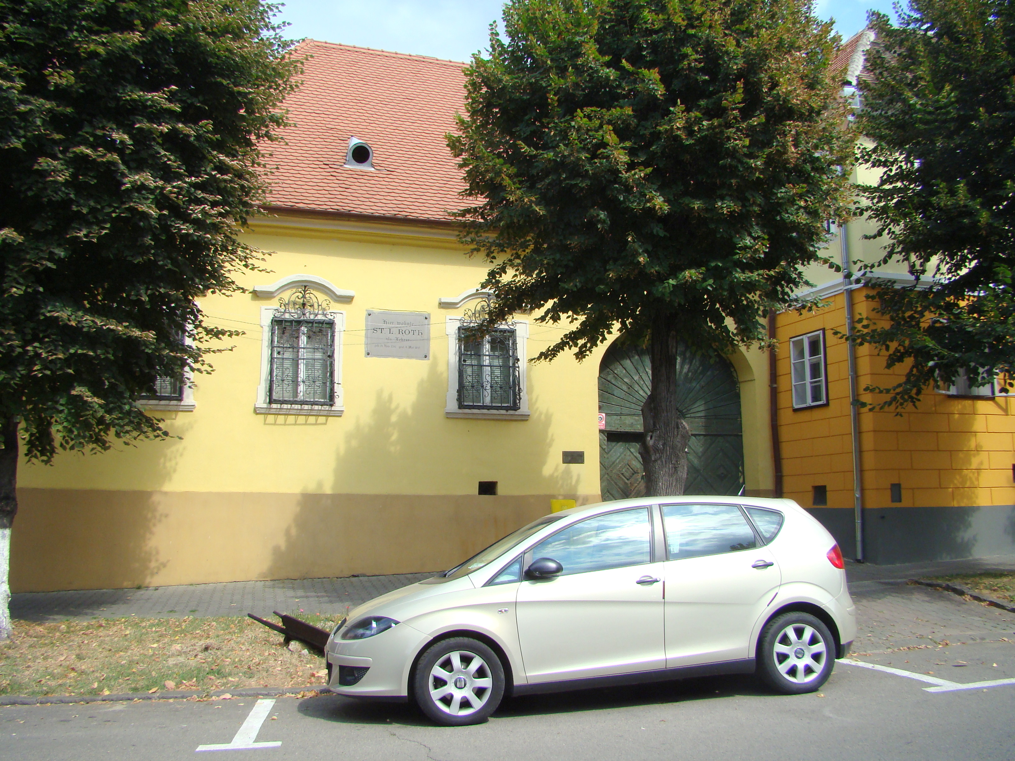 House, historic monument, Johannes Honterus street, number 10, Mediaș, Sibiu county, Romania